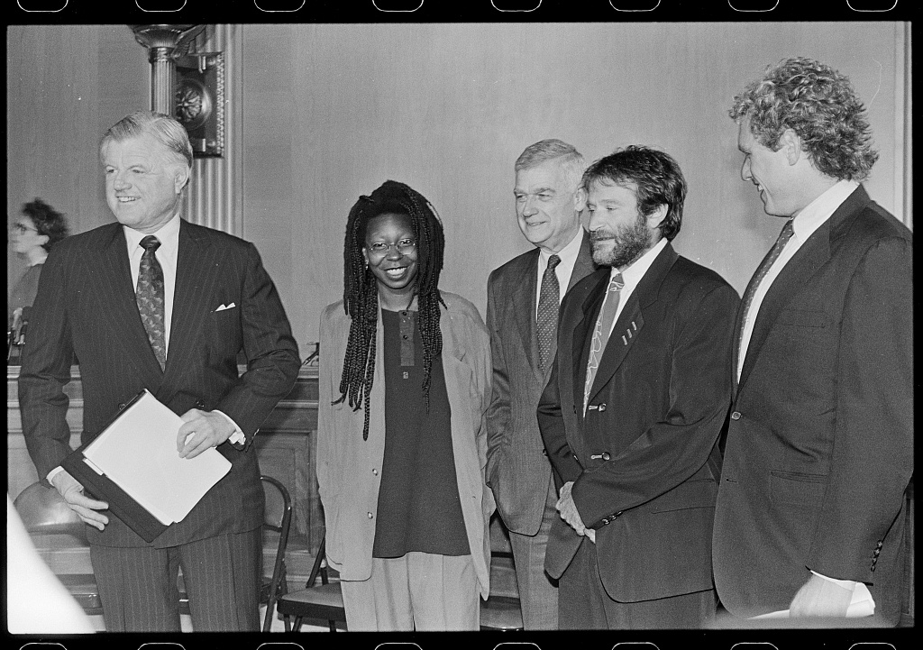 Senator Ted Kennedy and Representative Joseph Kennedy II with Comic Relief USA members Robin Williams and Whoopi Goldberg